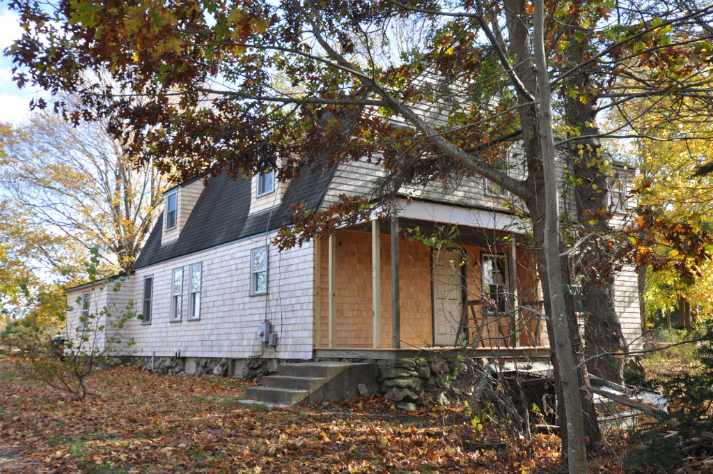 Possibly the Joseph Slocum House in North Kingstown, Rhode Island; much altered if so.